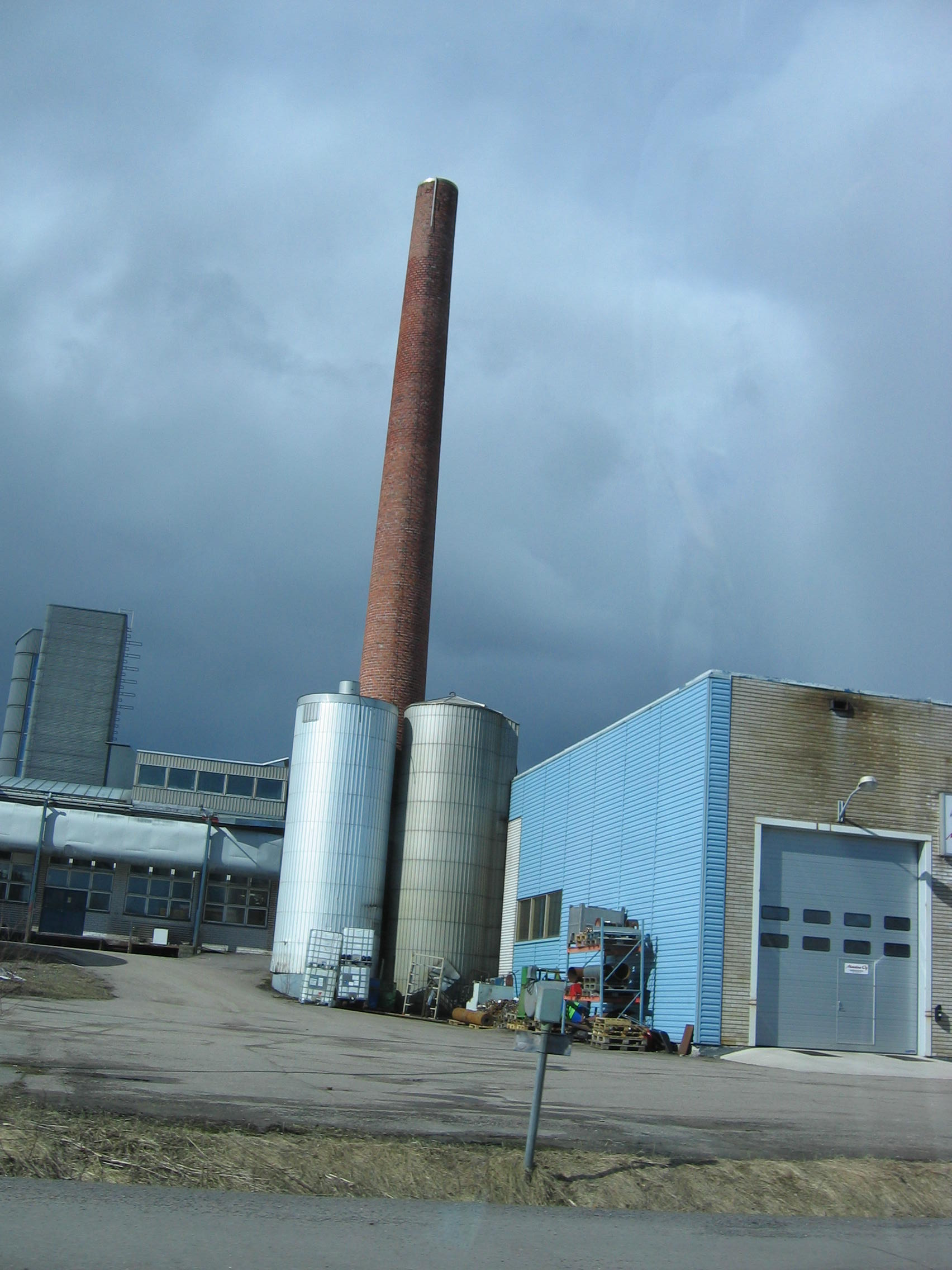 The former dairy facilities in the Särkisalmi village in Parikkala, Finland